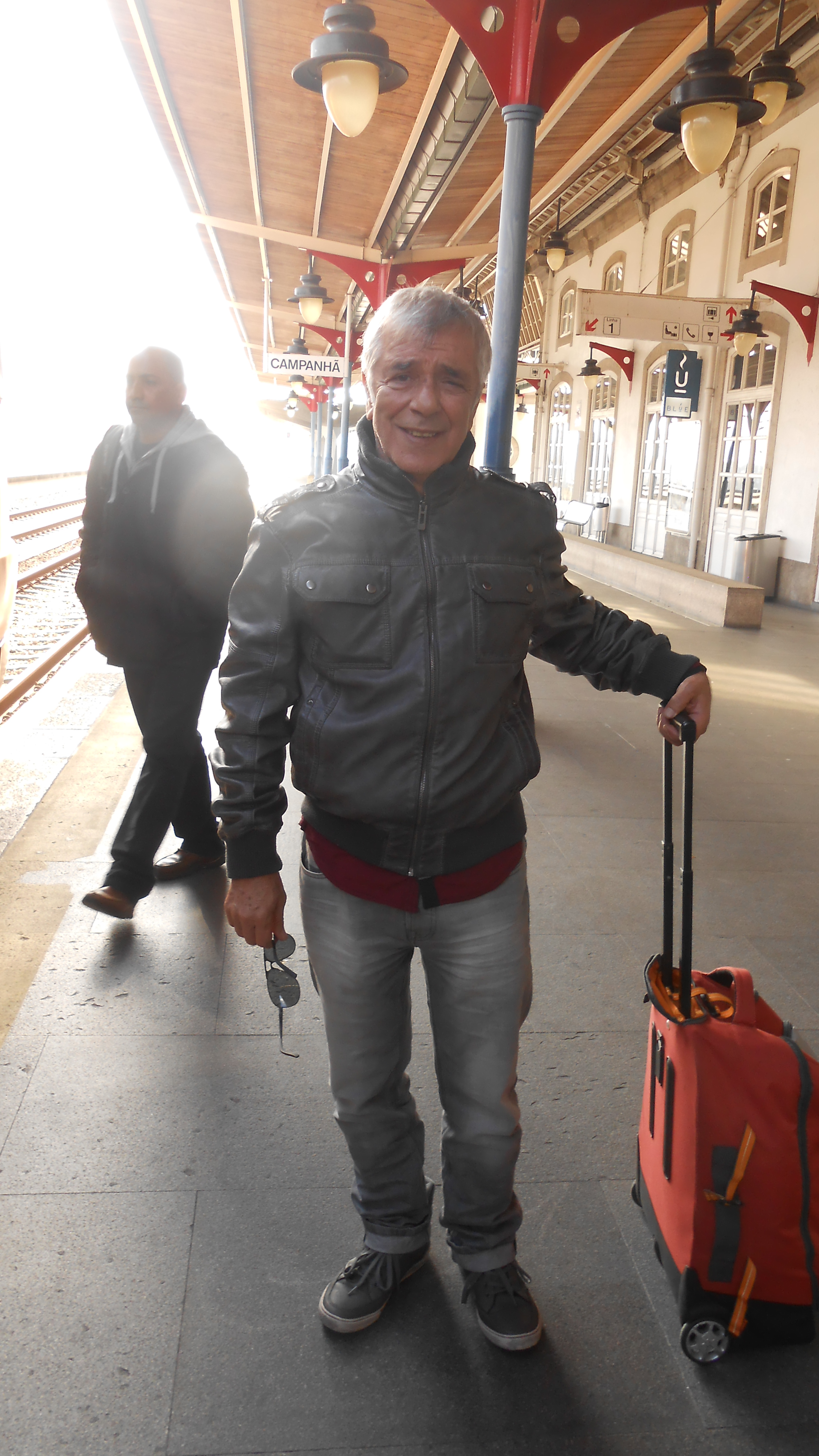 Portuguese actor Vítor Norte at the Porto Campanhã train station, sunday, the 9th of november 2014.